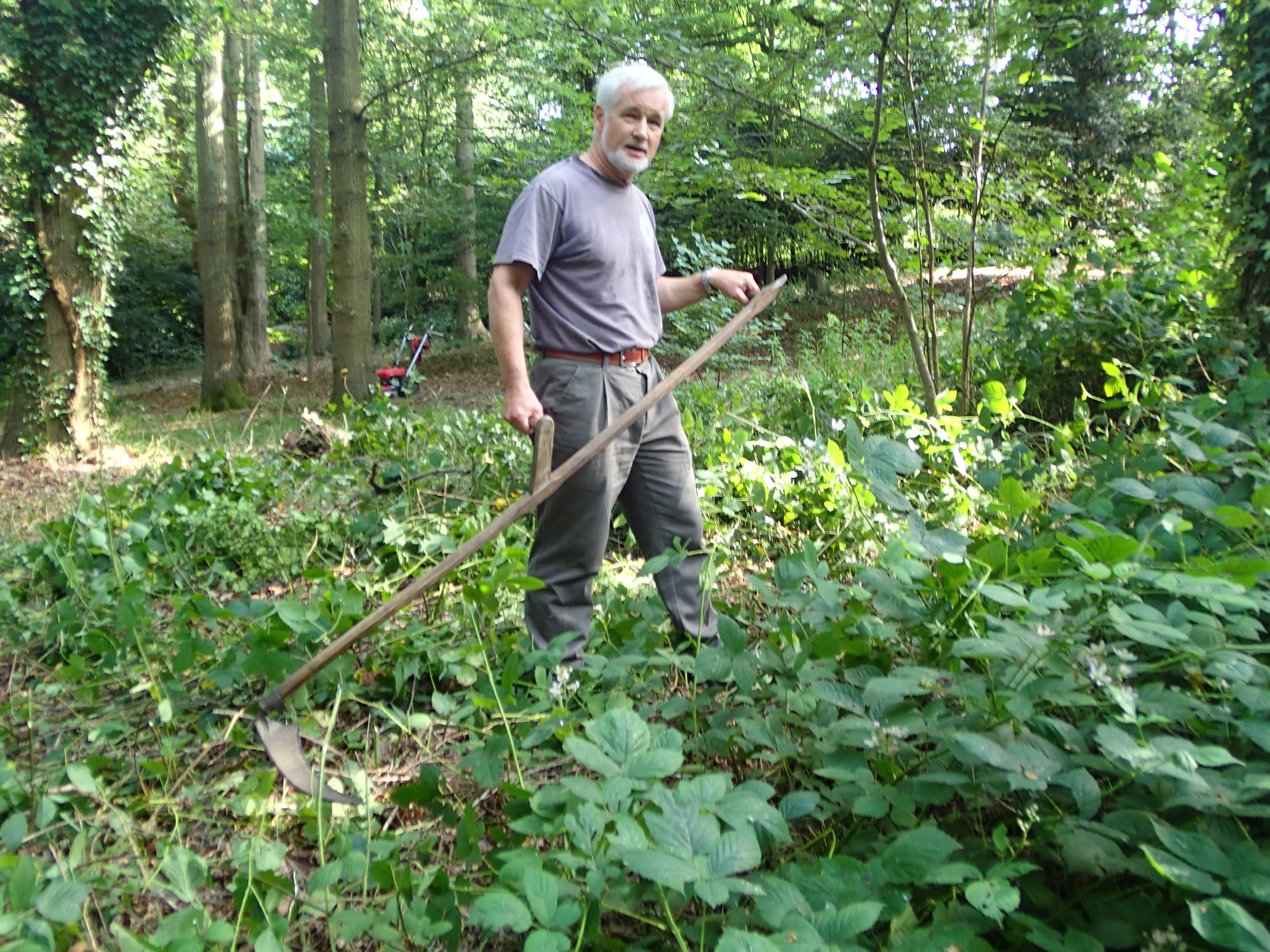 Short scythe used to cut brambles in Kent, England